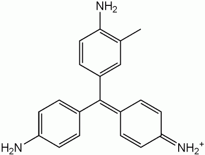 Description: Chemical structure of Fuchsine Author, date of creation: selfmade by Shaddack, 4 November 2005 Source: self-made Copyright: Public Domain (PD) Comments: b/w hires PNG; ChemDraw